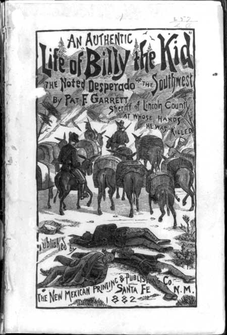 Cover of Pat F. Garrett, An Authentic Life of Billy the Kid, the Noted Desperado of the Southwest, illustrated with 2 men with horses riding away from dead bodies lying on ground